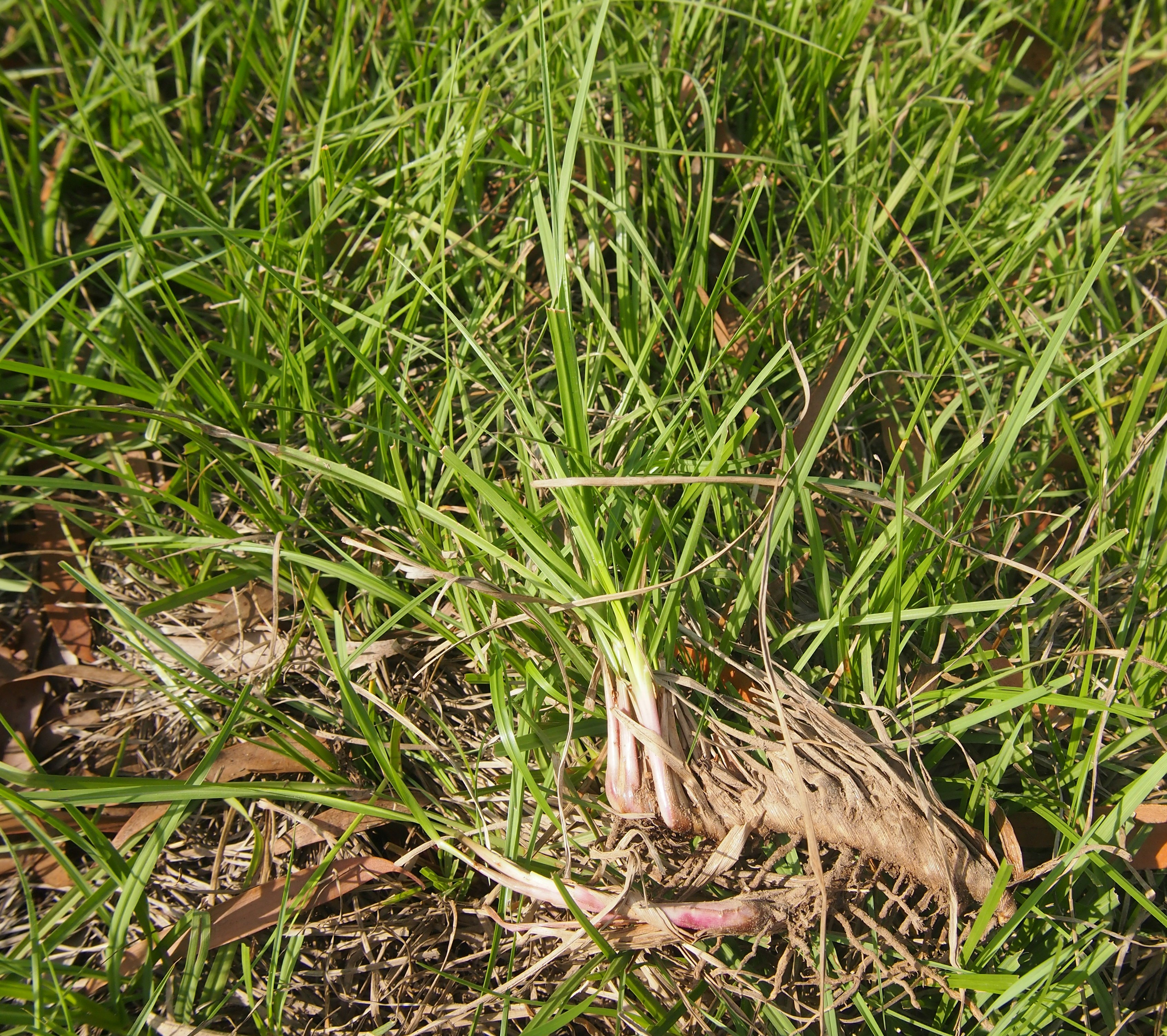 Eremochloa bimaculata plant uprooted to display the charteristic stolon.